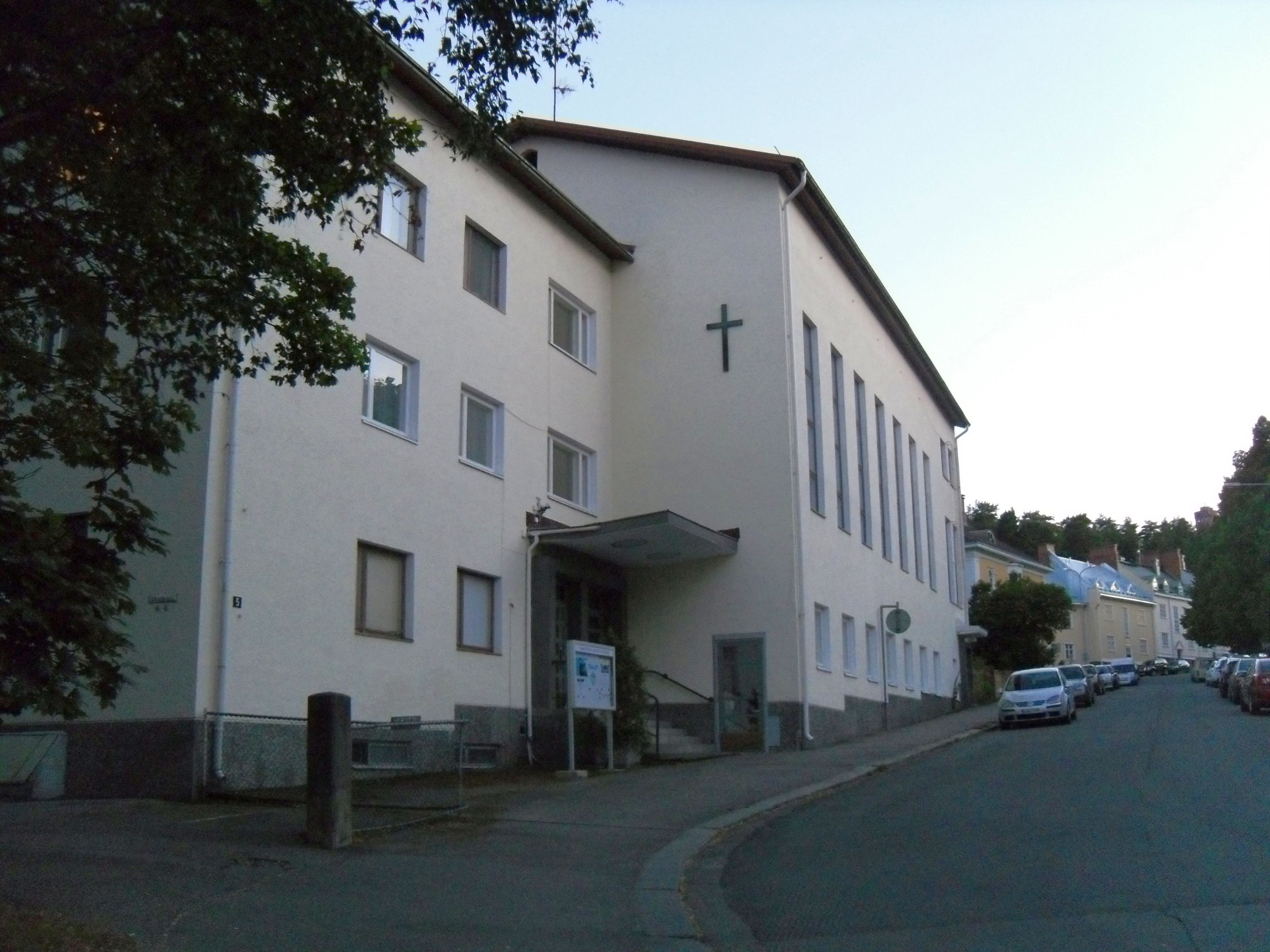 Adventist church of Tampere